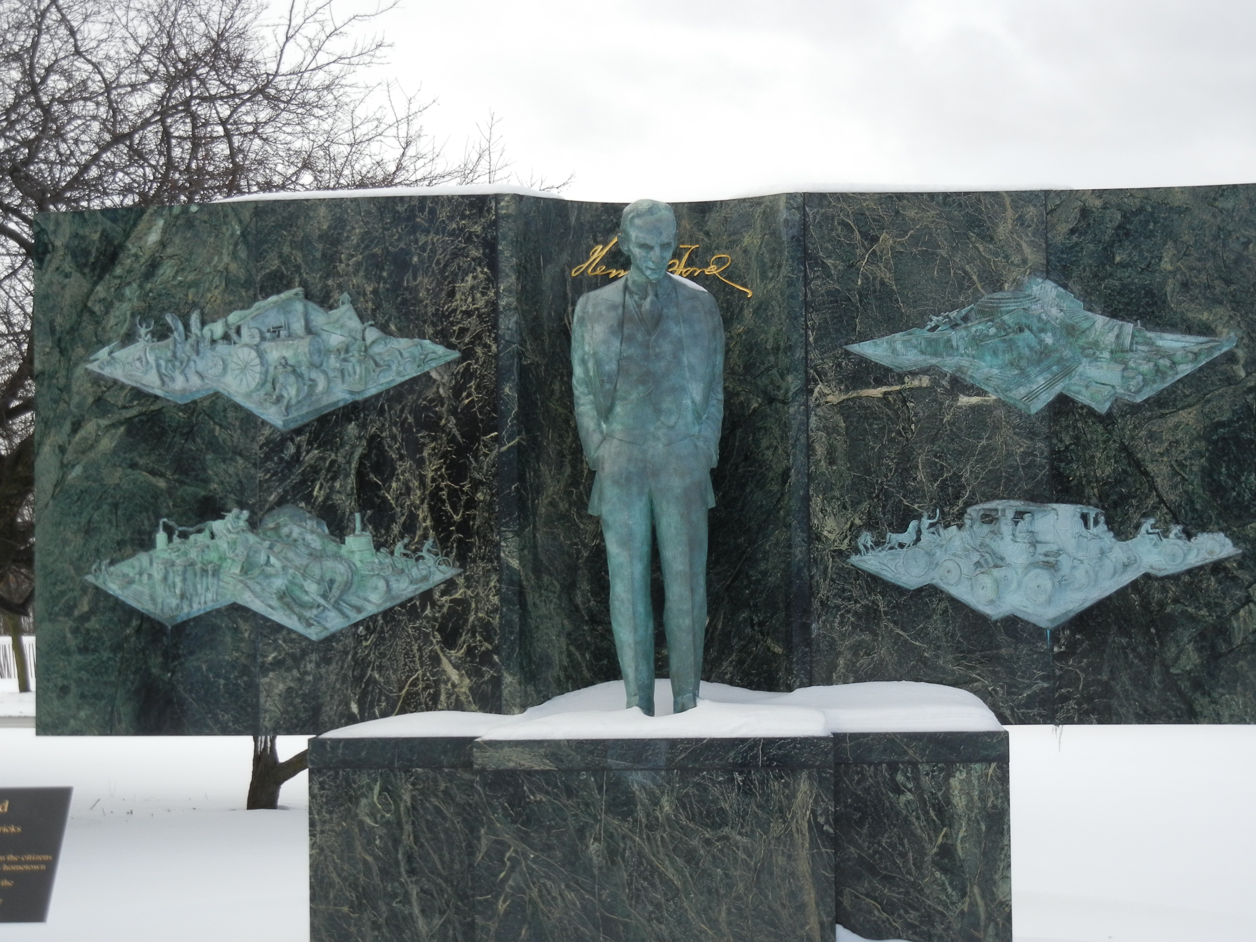 Henry Ford Memorial in Dearborn, Michigan by Marshall Fredericks